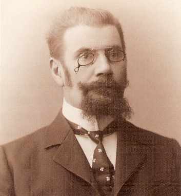 Theodor Homén, a Finnish professor and politician.